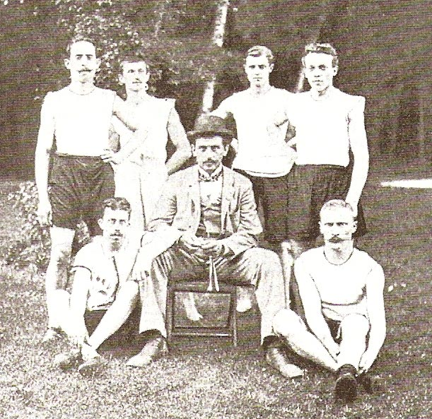 German athletic team at the 1900 Olympic Games photography, reproduction, no restrictions on use